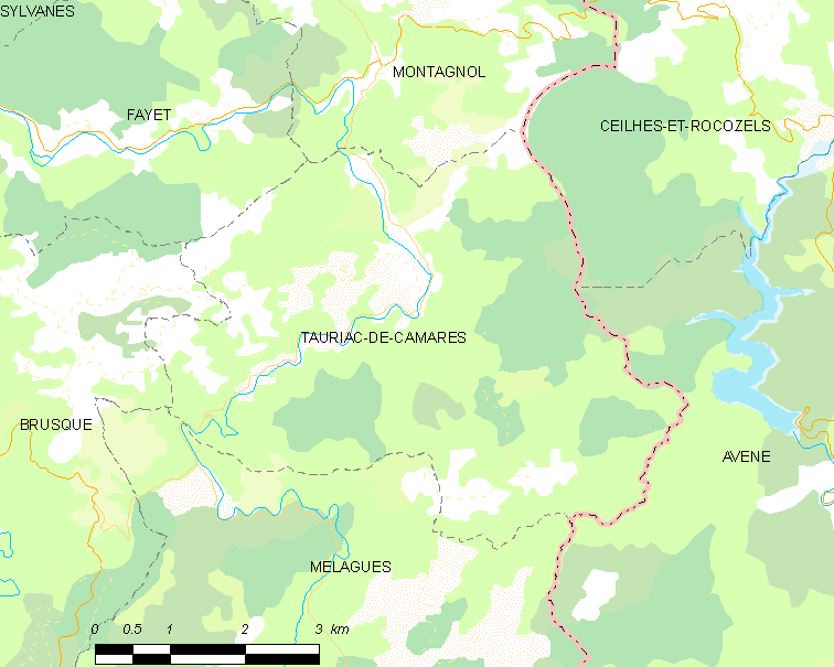 Map commune FR insee code 12275.png - Tauriac-de-Camarès